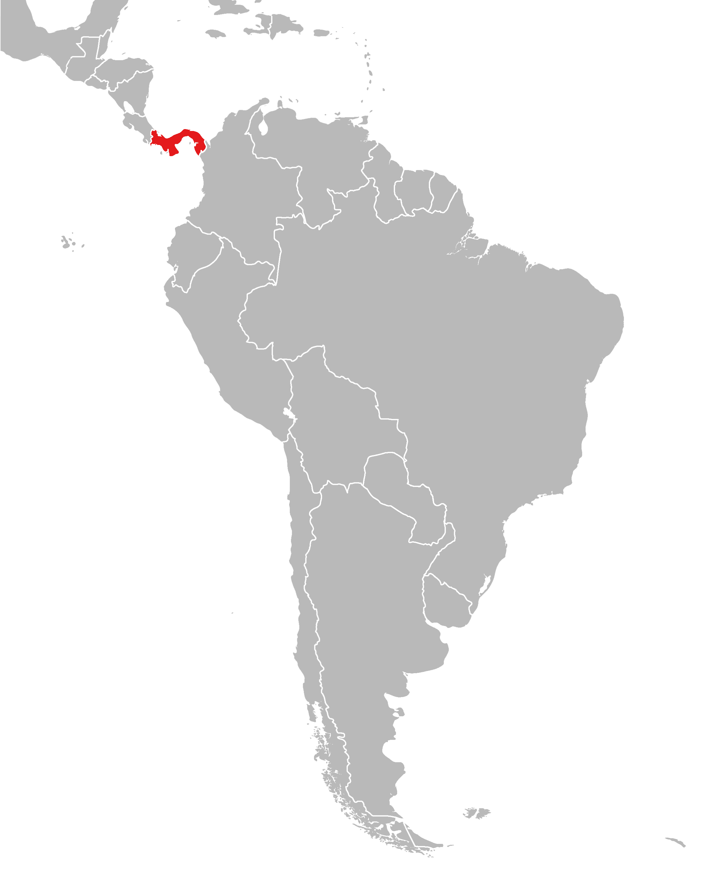 Distribution map of Coendou rothschildi